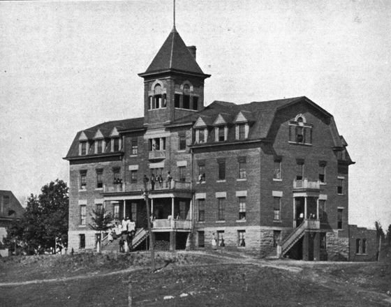 Crary Hall, Morristown College, Morristown, Tenn. Morris Town College, Morristown, TN 37814, USA 1908 - 1912